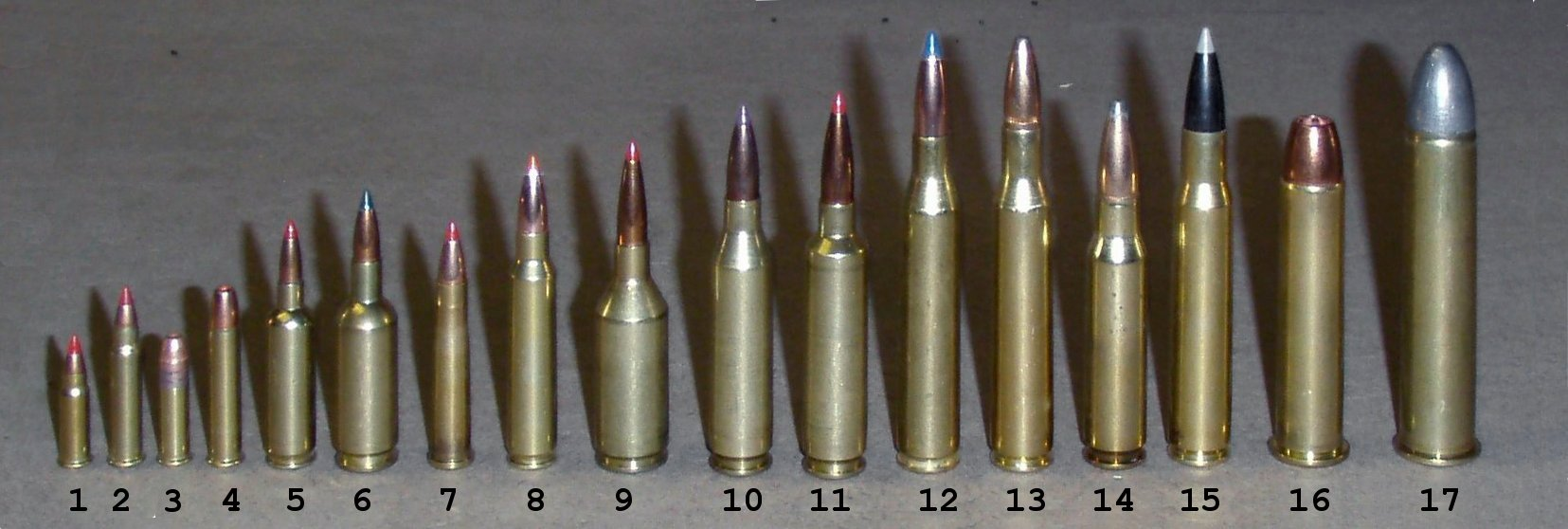 Various Cartridges Left to Right: 1) .17 HM2; 2) .17 HMR; 3) .22LR; 4) .22 WMR; 5) .17 SMc; 6) 5mm/35 SM4; 7) .22 Hornet; 8) .223 Remington; 9) .223 WSSM; 10) .243 Winchester; 11) .243 Winchester Improved (Ackley); 12) .25-06; 13) .270 Winchester; 14) .308; 15) .30-06; 16) .45-70 Govt; 17) .50-90 Sharps